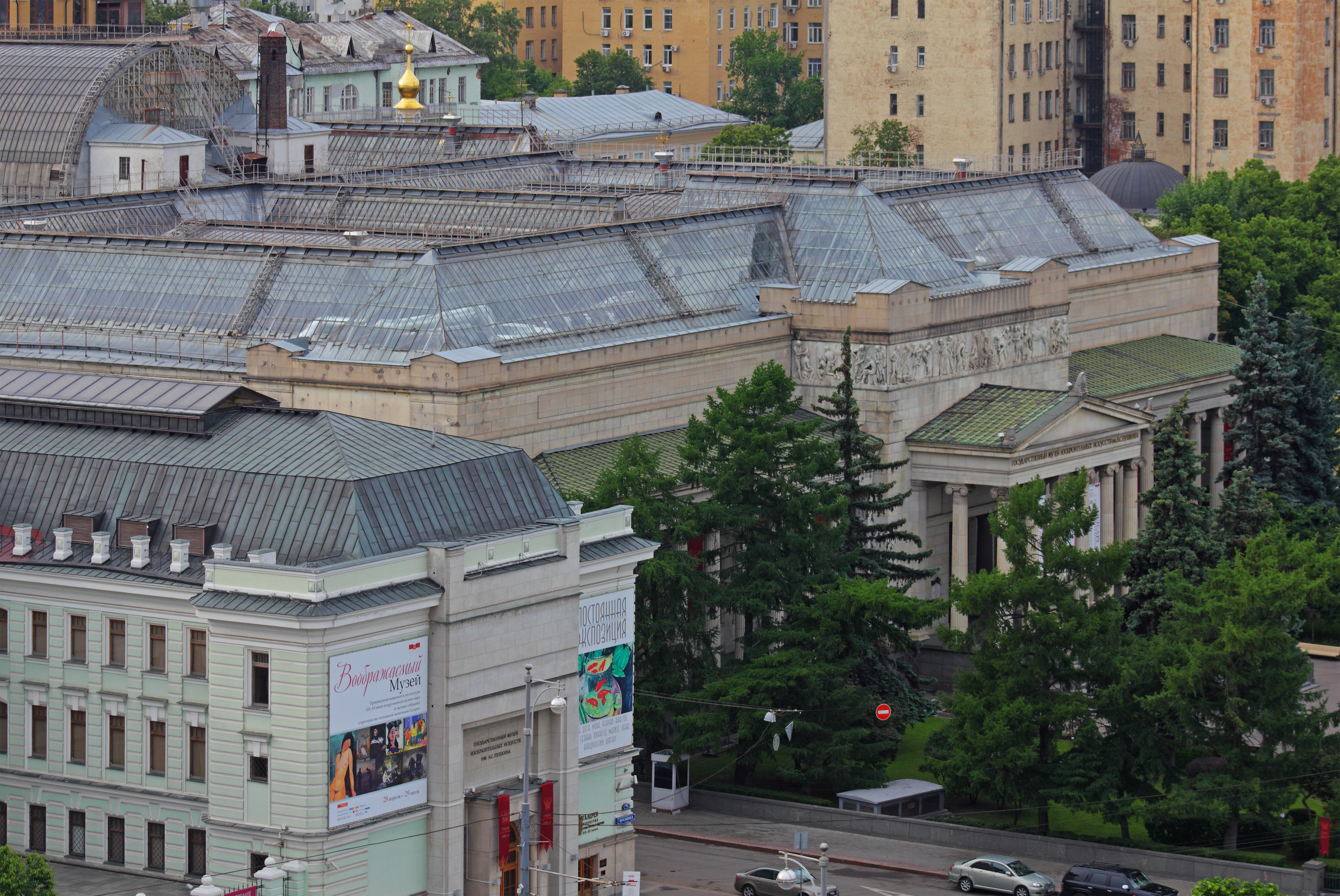 Moscow, Russia. Volkhonka Street. State Pushkin Museum.